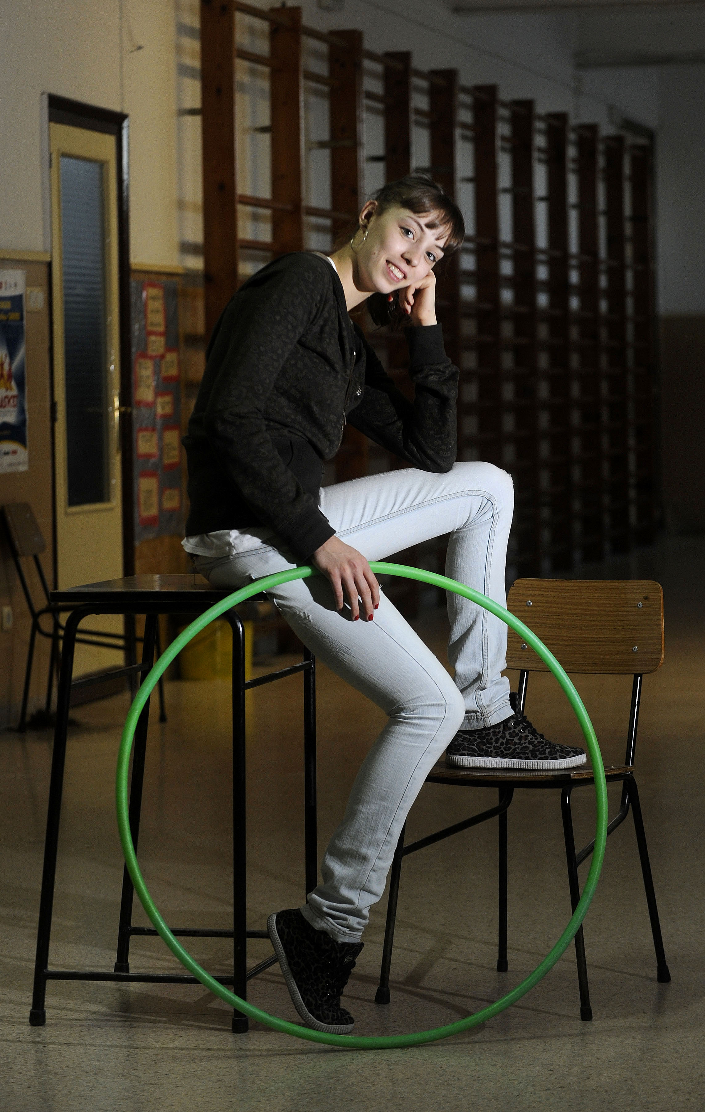 ANA MARIA PELAZ, GIMNASTA DE RITMICA, DEL EQUIPO OLIMPICO ESPAÑOLFOTO MIGUEL ANGEL SANTOS